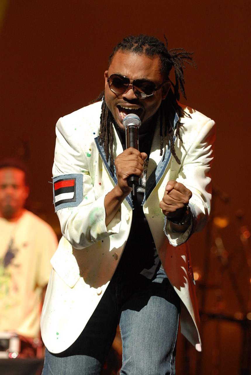 Soca singer Machel Montano performing at the 2007 International Reggae and World Music Awards (IRAWMA), Apollo Theater, New York City